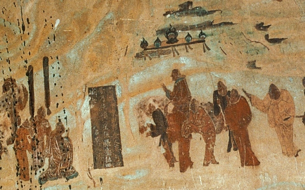 The travel of Zhang Qian to the West. Mogao caves, 618-712 CE. Translation of Chinese note: "This is a section of a Dunhuang mural showing a line of officials led by Han Emperor Wu (Han Wudi) to see off Zhang Qian in the outskirts of Chang'an (the capital city). Zhang Qian is shown kneeling at the left edge of the painting."